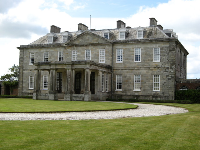 Antony House, Torpoint